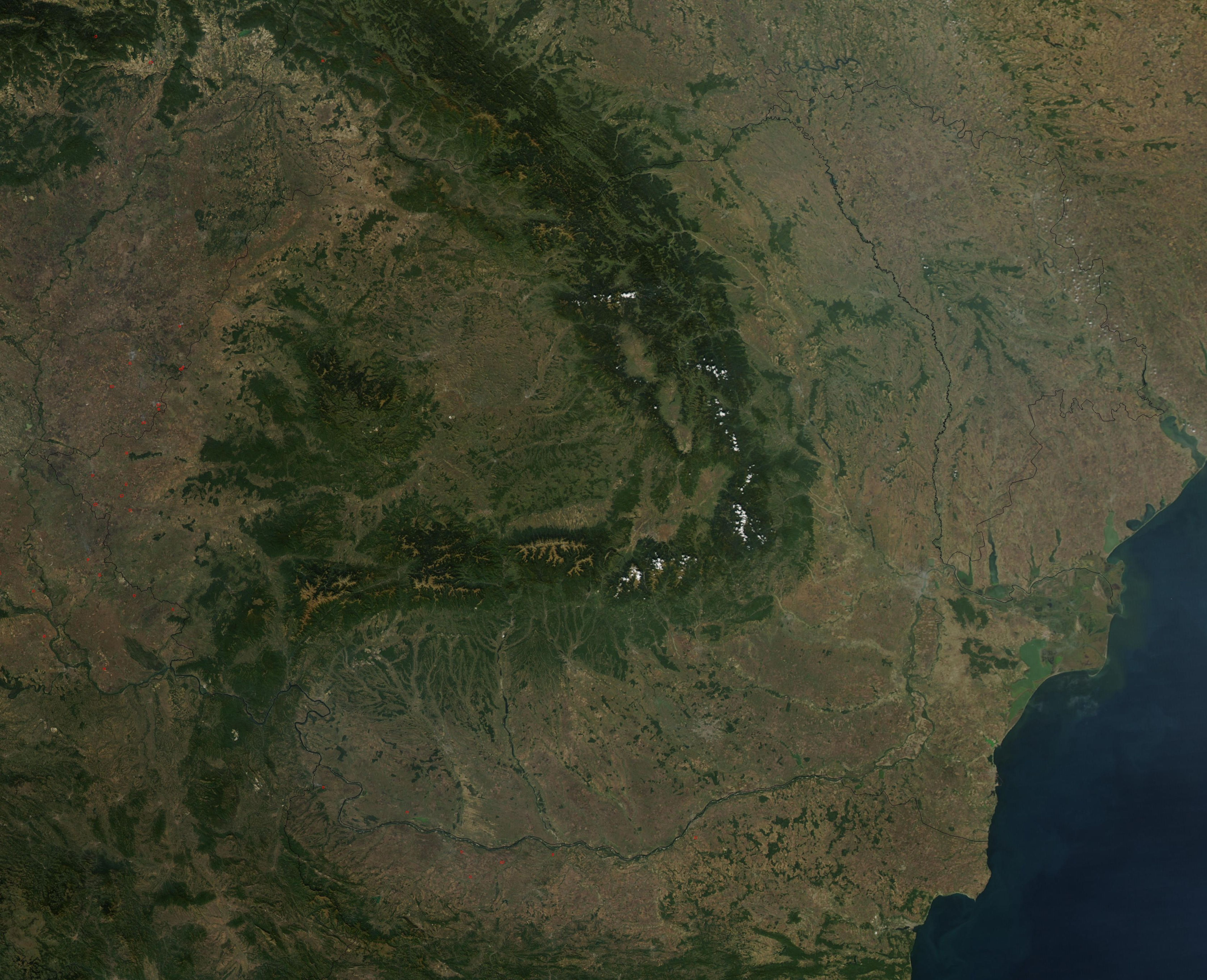 Shades of green color Central Europe in this true-color Aqua Moderate Resolution Imaging Spectroradiometer (MODIS) image from September 21, 2003. The dark green of mountains stand out in sharp relief against the paler brown-green of the lower elevations, providing visual clues to the varied terrain found in this part of the world.